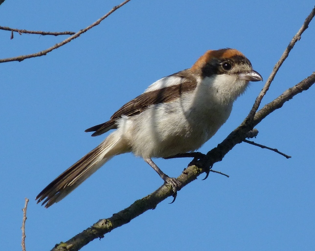 Near Tàrrega, Lleida, Catalonia.